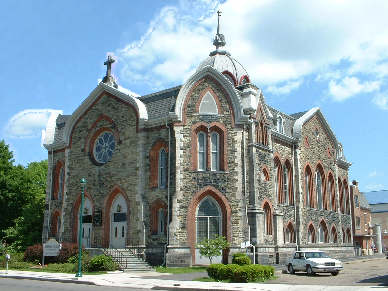 The Park Church, 208 West Gray Street, Elmira, NY